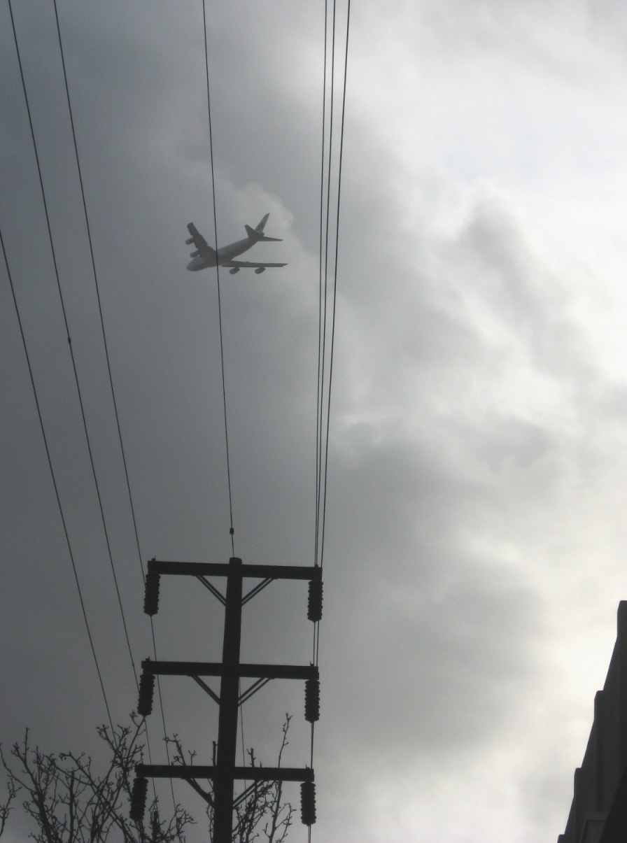 Boeing 747 airplane flying into the clouds over downtown Los Angeles, California. The plane is heading east. It is descending and preparing to make a 90-degree turn south before it turns west for its final approach and landing at Los Angeles International Airport. Literally, the plane disappeared a second after I took the photograph.